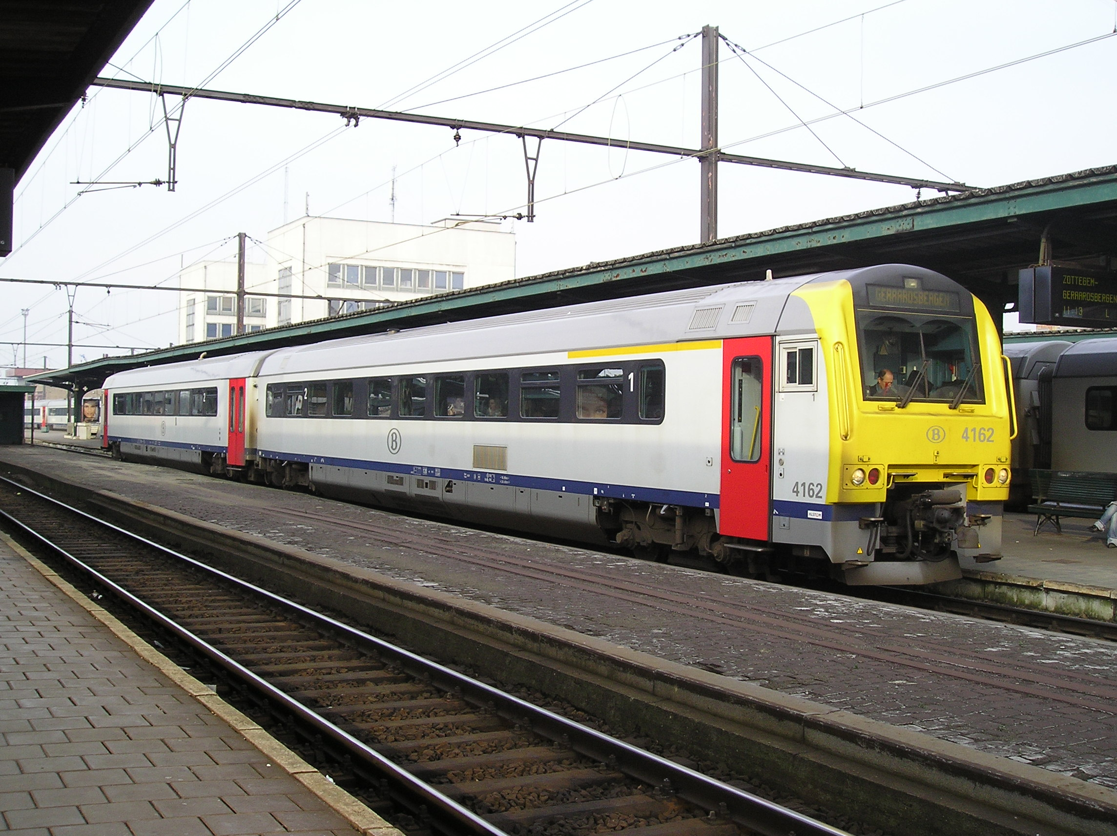 DMU No 4162 stands in in Sint-Pieters train station in Ghent. In DMU number, first two digits stand for series, and last two indeficate this particular DMU.